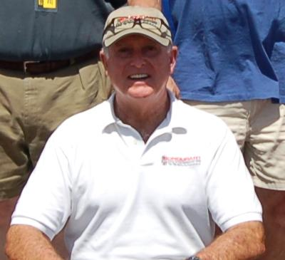 Bob Bondurant at his driving school in 2007